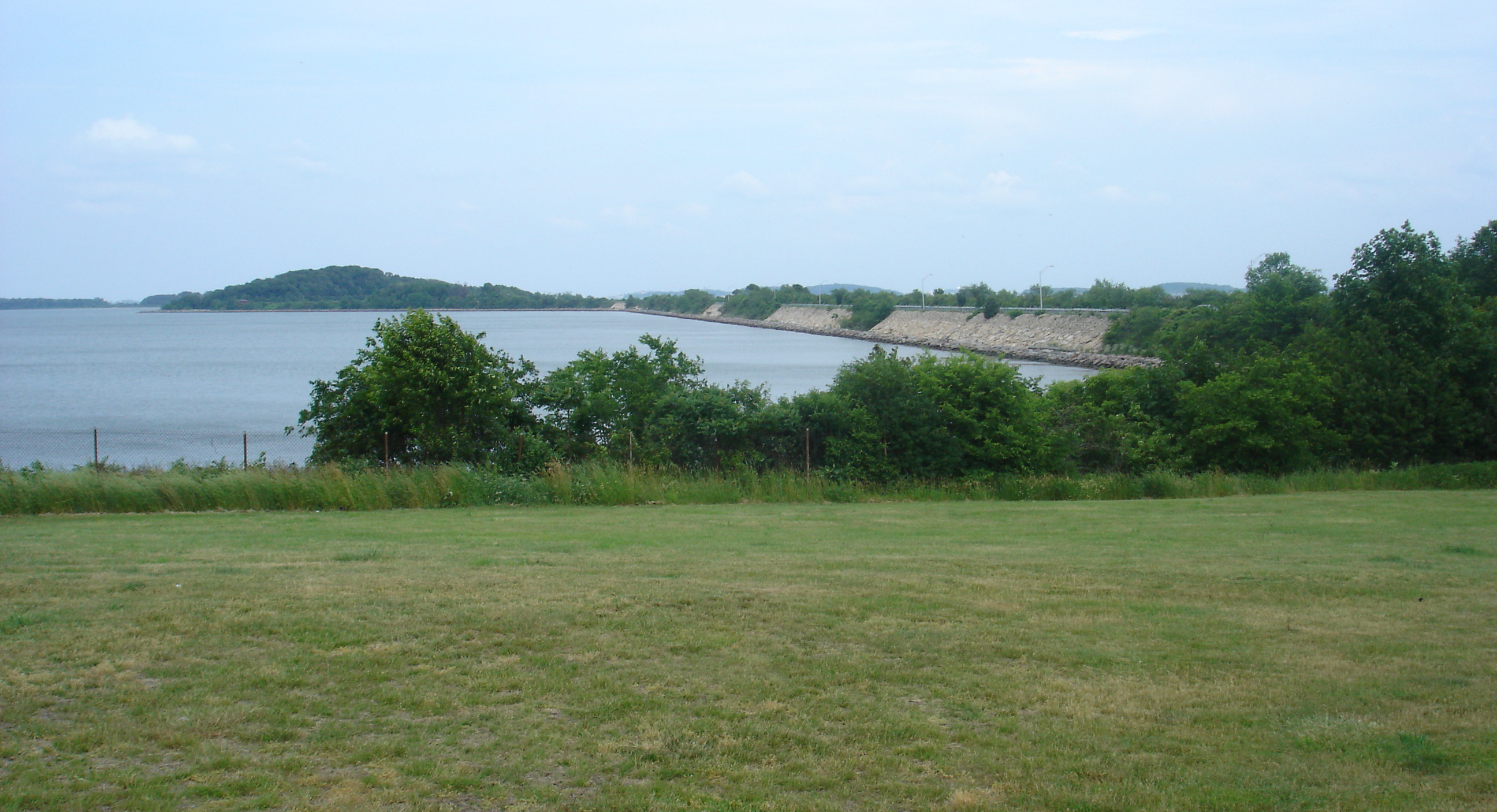 Causeway to Moon Island in Boston Harbor, as viewed from Squantum, Quincy, MA.